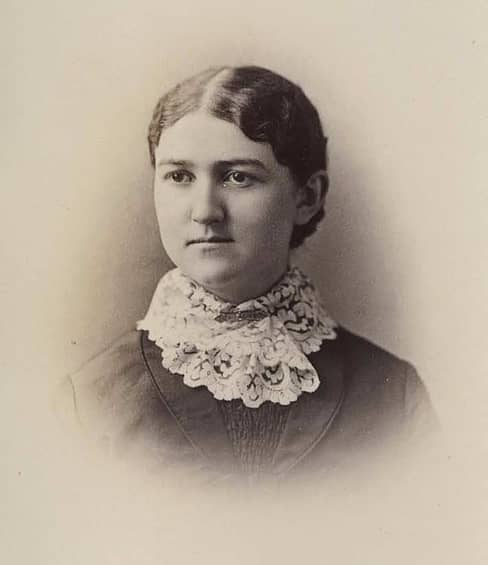 Kate A. Everest (later known as Kate Everest Levi) from the 1892 University of Wisconsin-Madison Class Album, taken approximately a year before she completed her Ph.D. in History at UW-Madison.